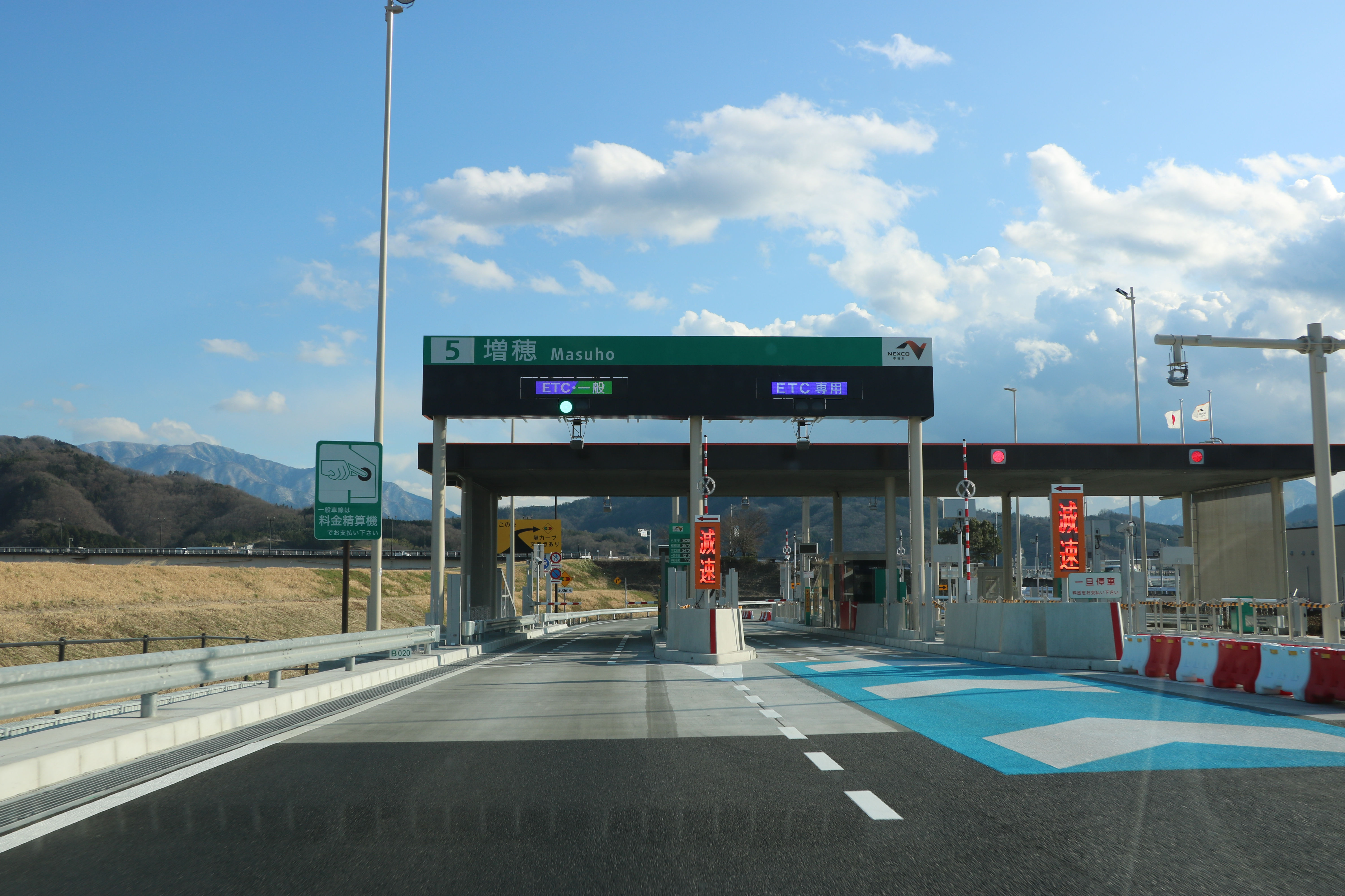 Masuho Interchange Toll Gate.